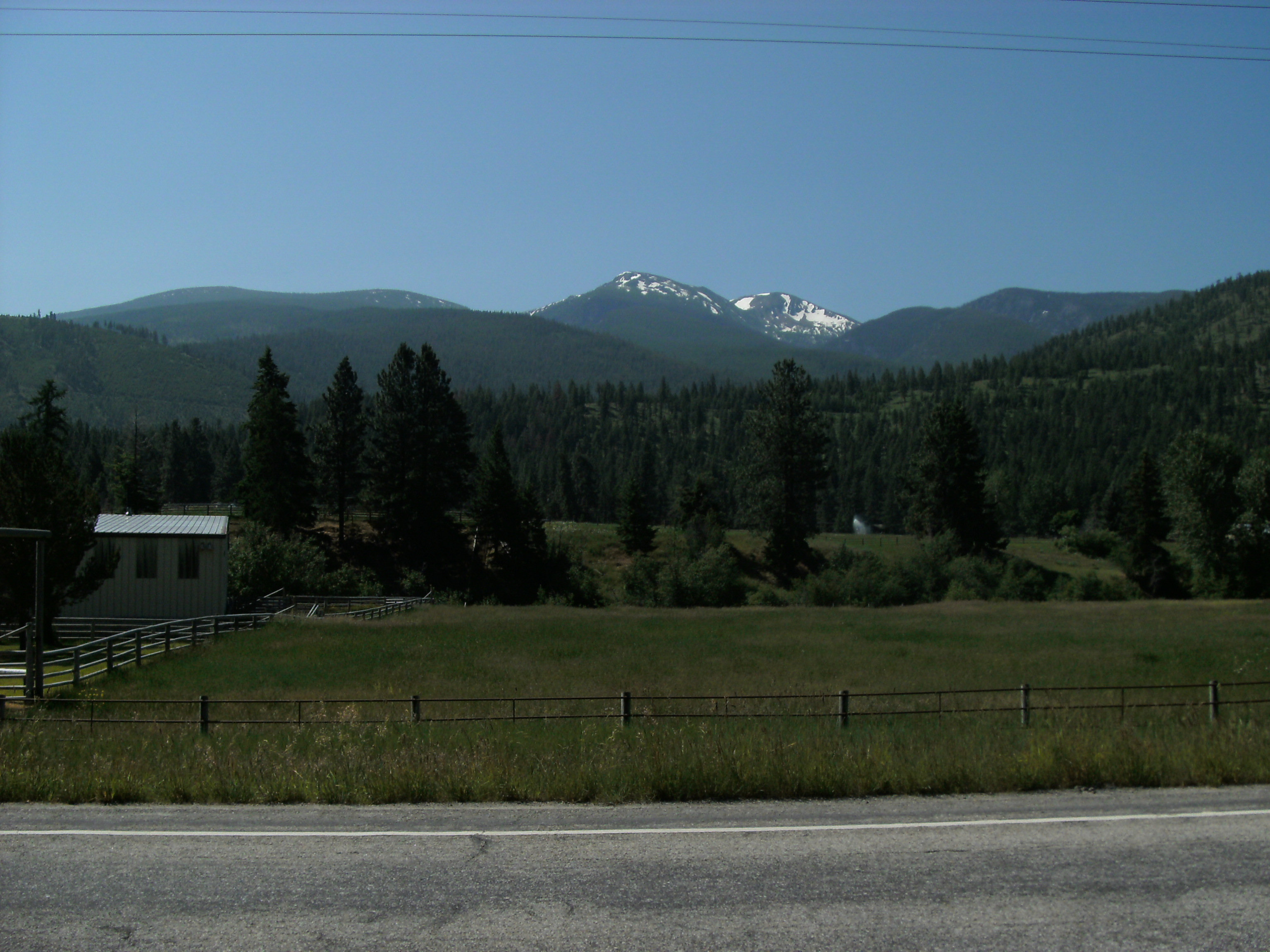 View of north face of Lolo Peak from U.S. Highway 12, western Montana.